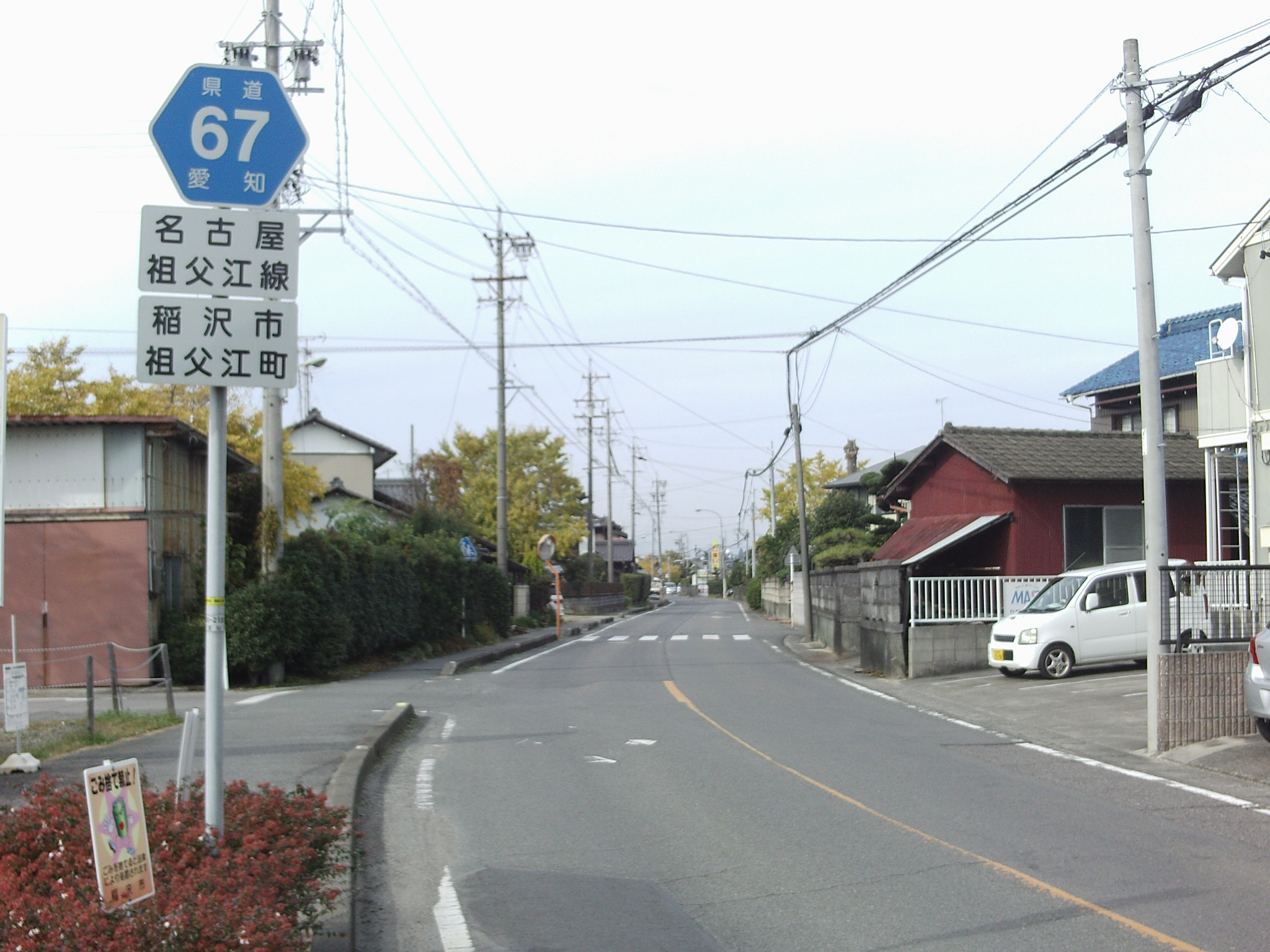 Aichi prefectural road No.67 in Sobuecho Yamazaki, Inazawa, Aichi.